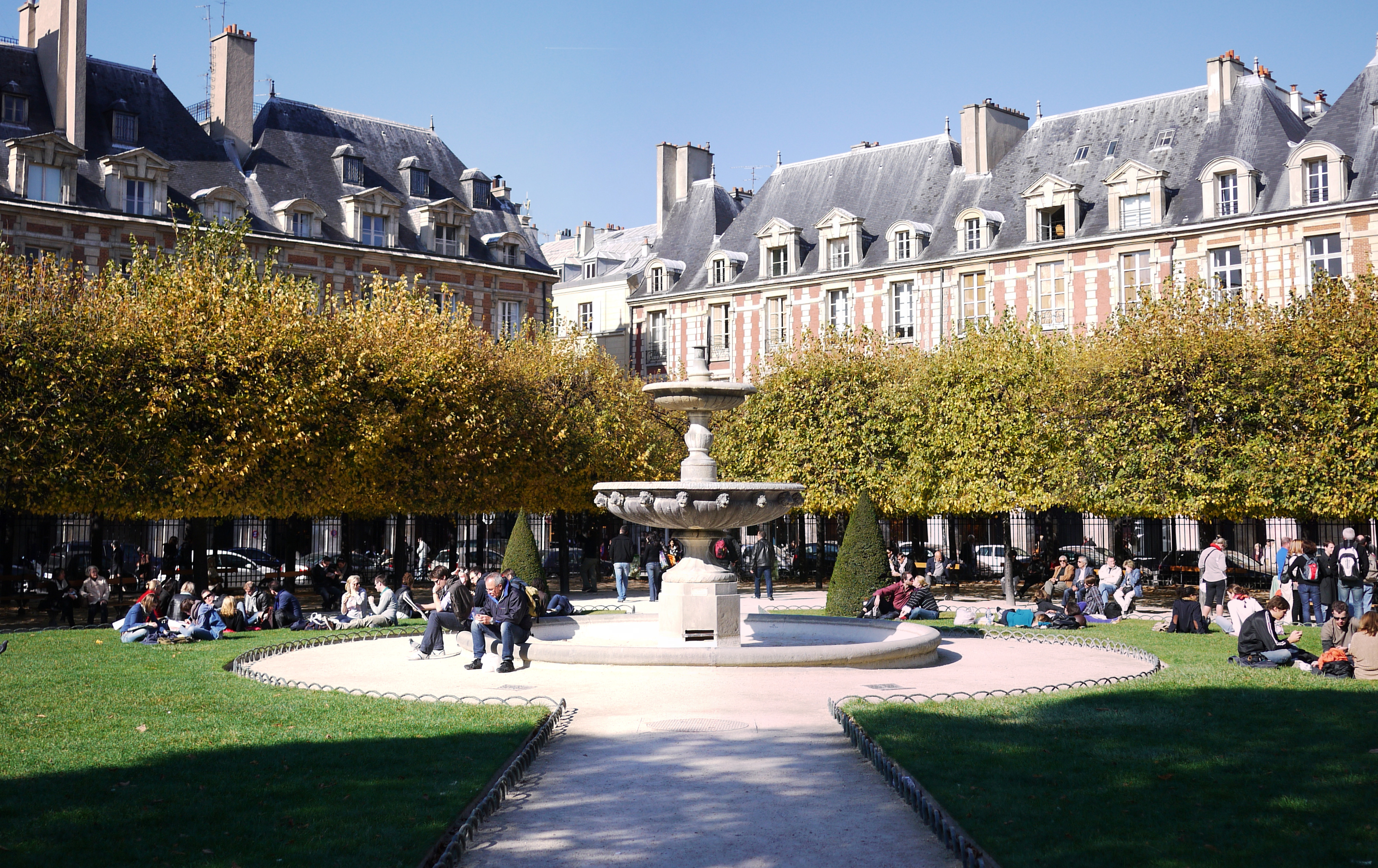 North-western fountain in the square Louis-XIII, at the center of the place des Vosges, Paris, France